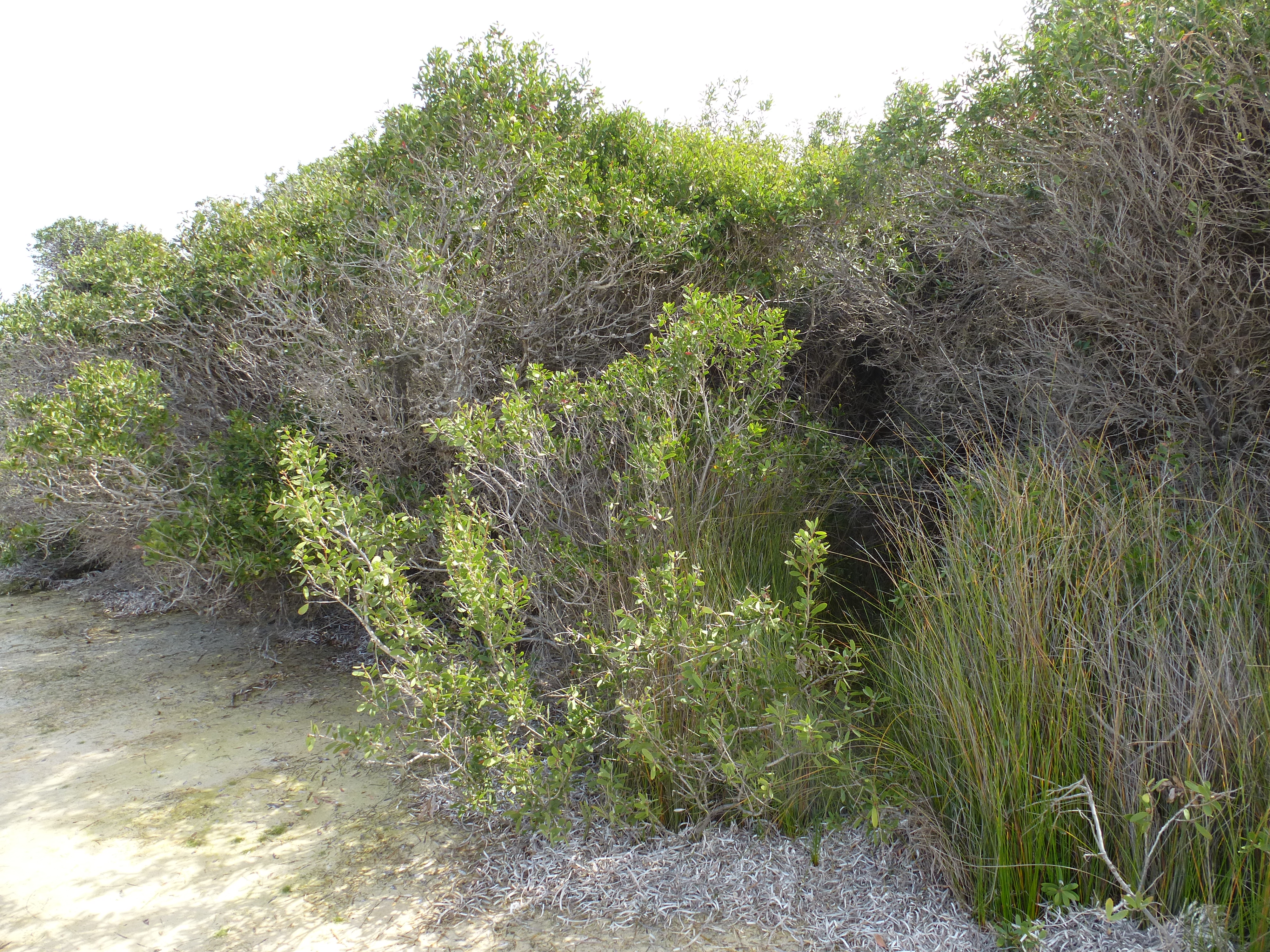 Melaleuca globifera at Cape le Grande